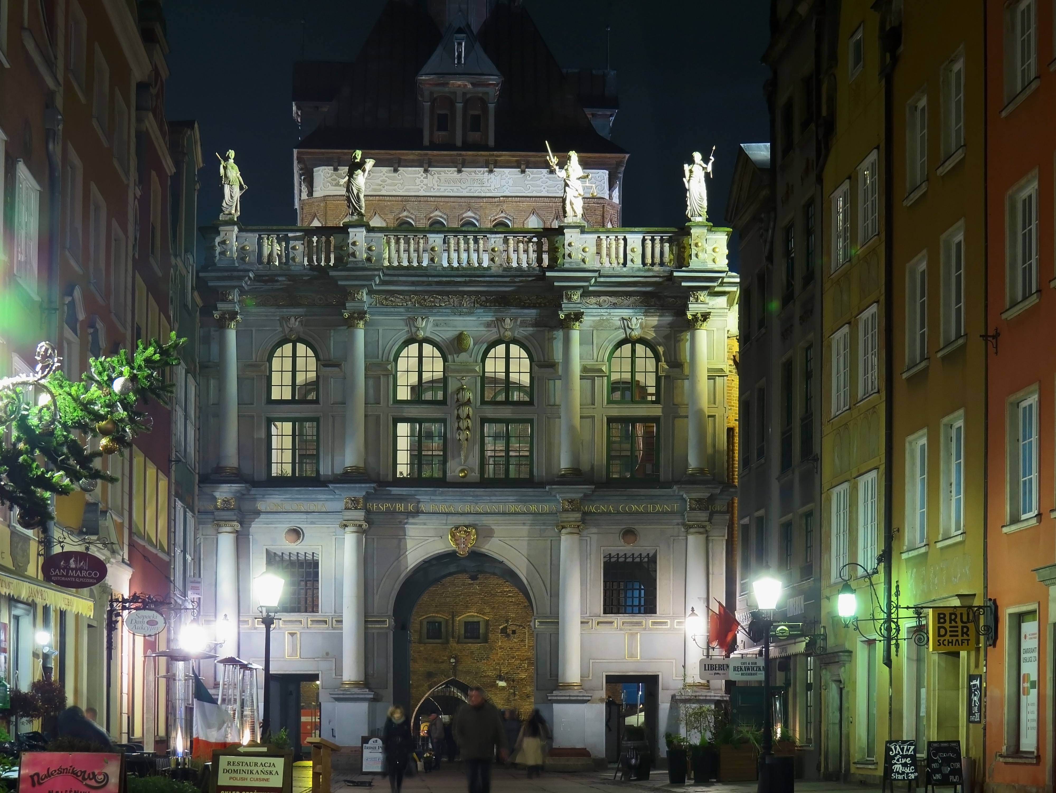 Golden Gate in Gdańsk